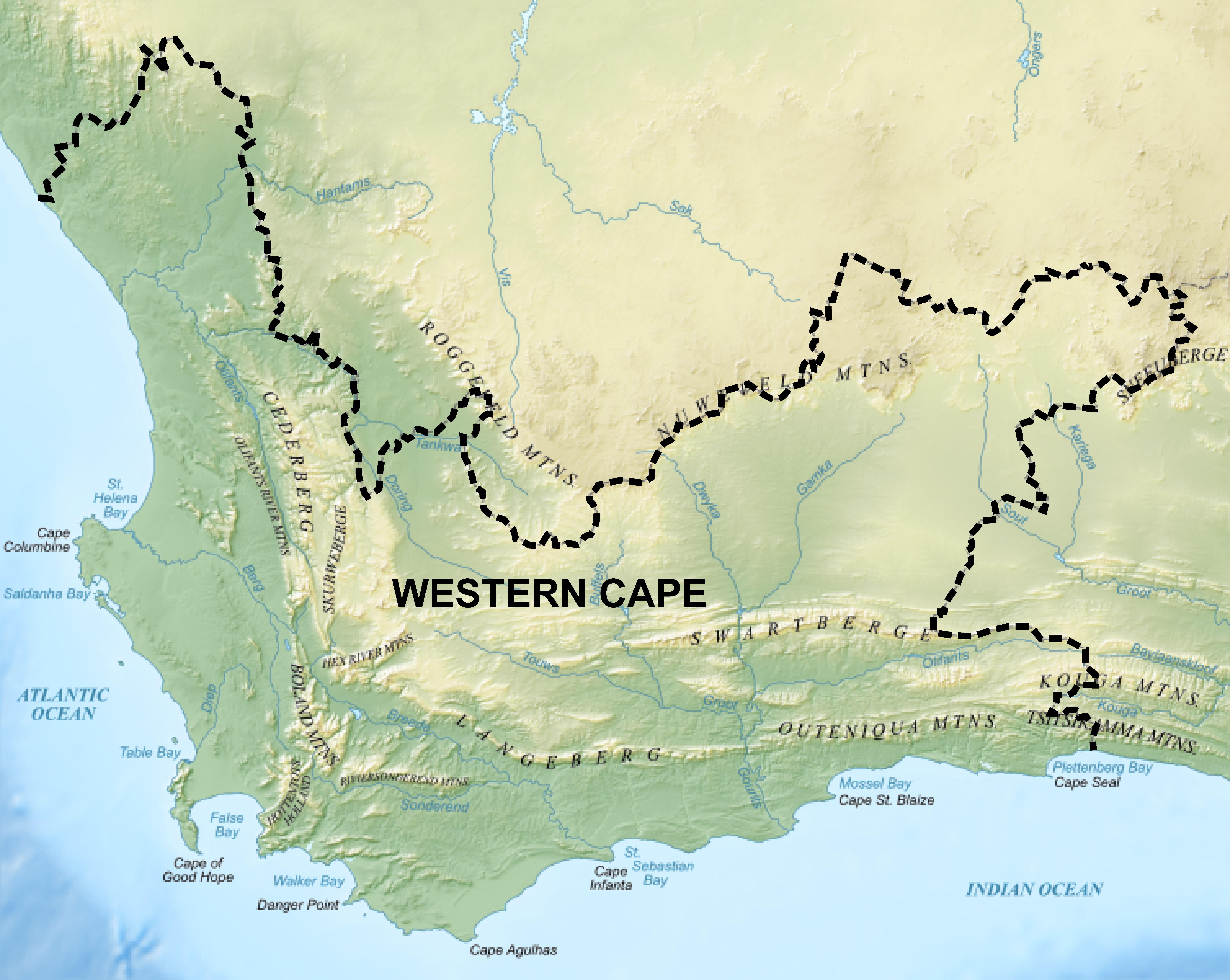 A modification of User:Htonl's map of the Western Cape (Western Cape topography labelled.svg) to emphasize the Western Cape boundary, which is almost invisible on the original map.